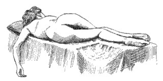 This is a patient position for gynecological examination and surgery, for lumbar spine surgery, for rectal examination and treatments, and for the administration of enemas. It is named after the gynaecologist J. Marion Sims.